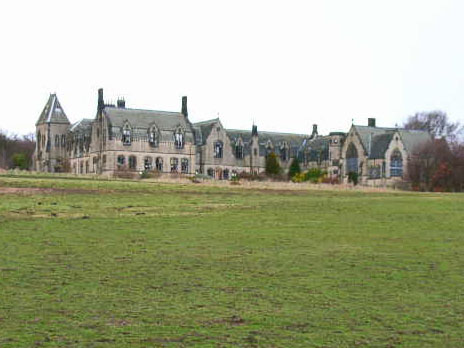 Ushaw College. The Roman Catholic Seminary and Conference Centre for the North of England.